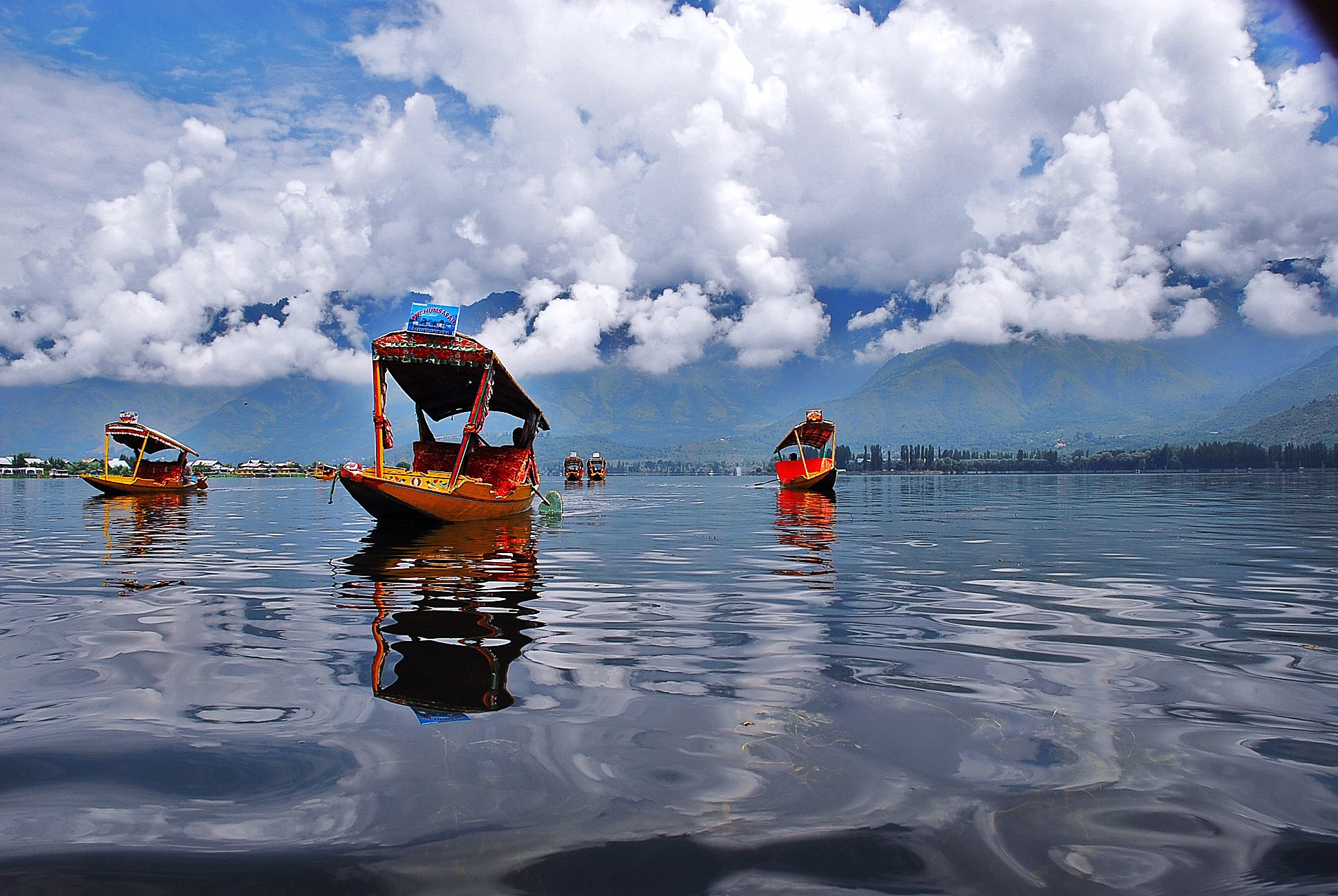 Shikara is a comfortable water taxi that offers a memorable boat ride. Manually rowed it gives you a true feeling of floating on the surface of water without wetting yourself. See more pics at Flicker for Kashmir; Flickr Pool and Kashmir set at Flickr